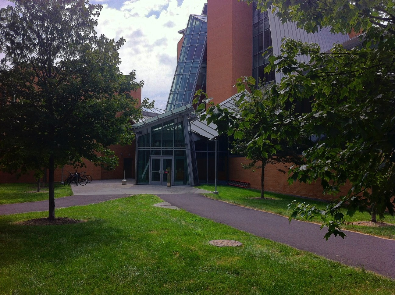 Lewis Science Library, built at Princeton University.